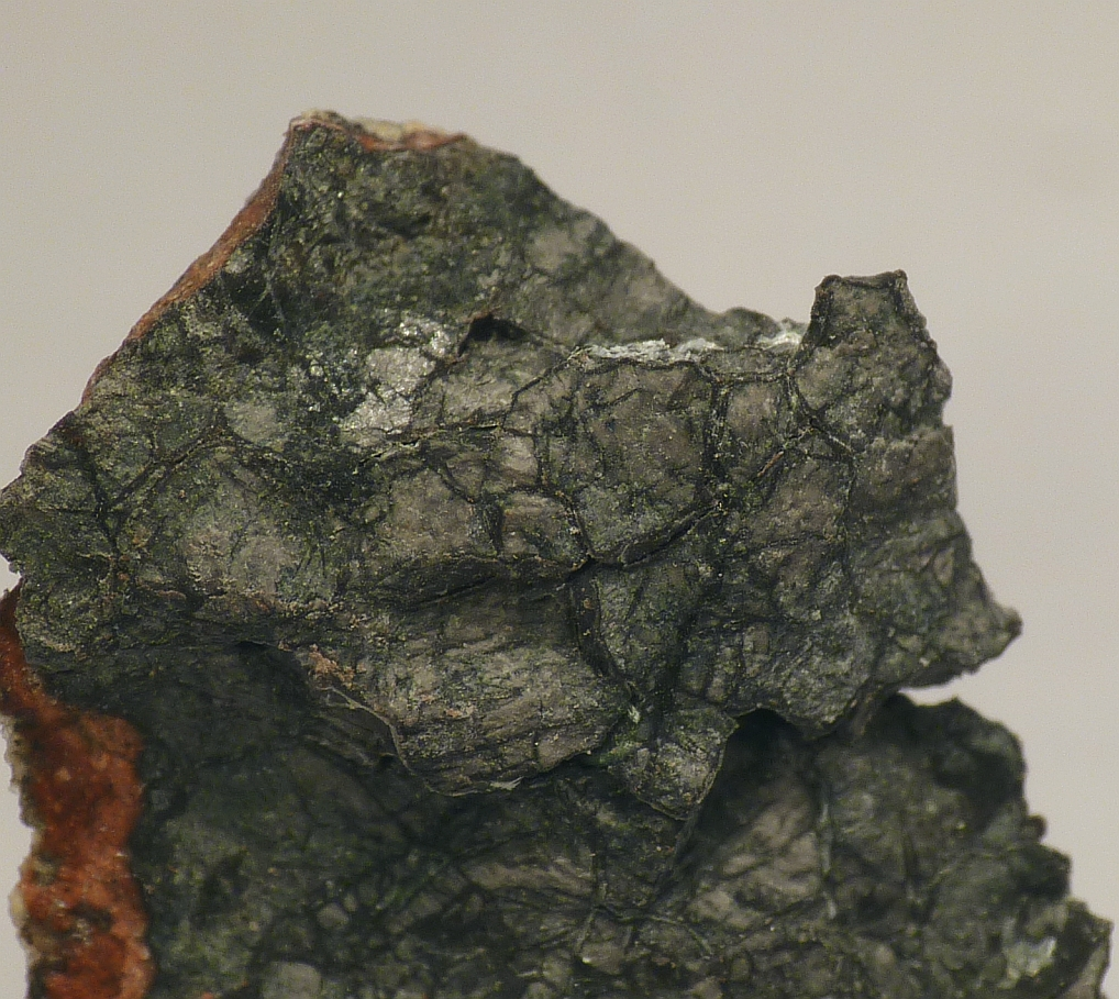 Oldhamite Locality: Lichtenberg Absetzer Mine (dump), Ronneburg U deposit, Gera, Thuringia, Germany Dark grey grains, masses and tiny veins of oldhamite in calcite. Ex Fritz Rüger collection. Field of view 1.5 cm.